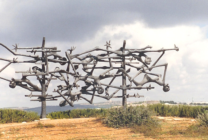 Israel, Jerusalem, Yad Vashem